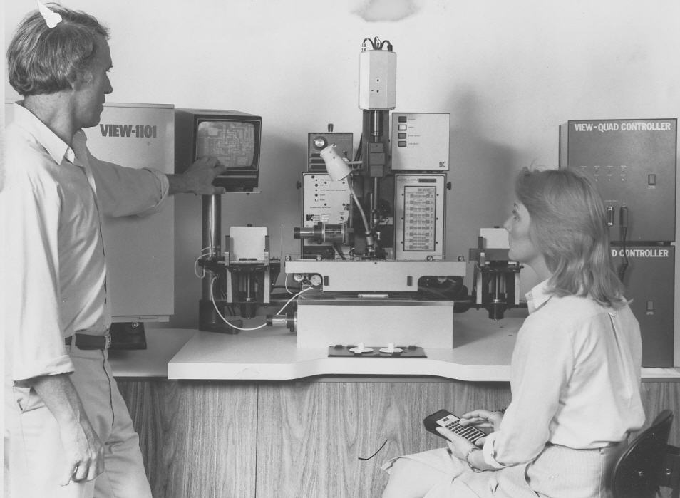 Dr. Richard Hubach demonstrating a VIEW 1101 Pattern Recognition System attached to a wirebonding machine.